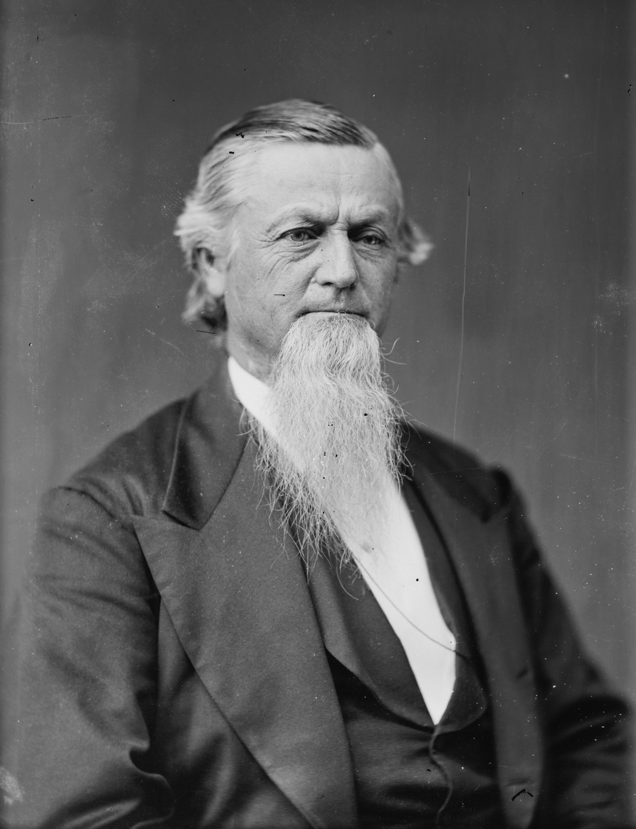 George Gibbs Dibrell. Library of Congress description: "Dibrell, Hon. Rep. George Gibbs of Tenn.Lt. Col. of Infantry C.S.A. Col. of Cavalry Discharged as Brig. Gen. (Opposed Sherman's March)"